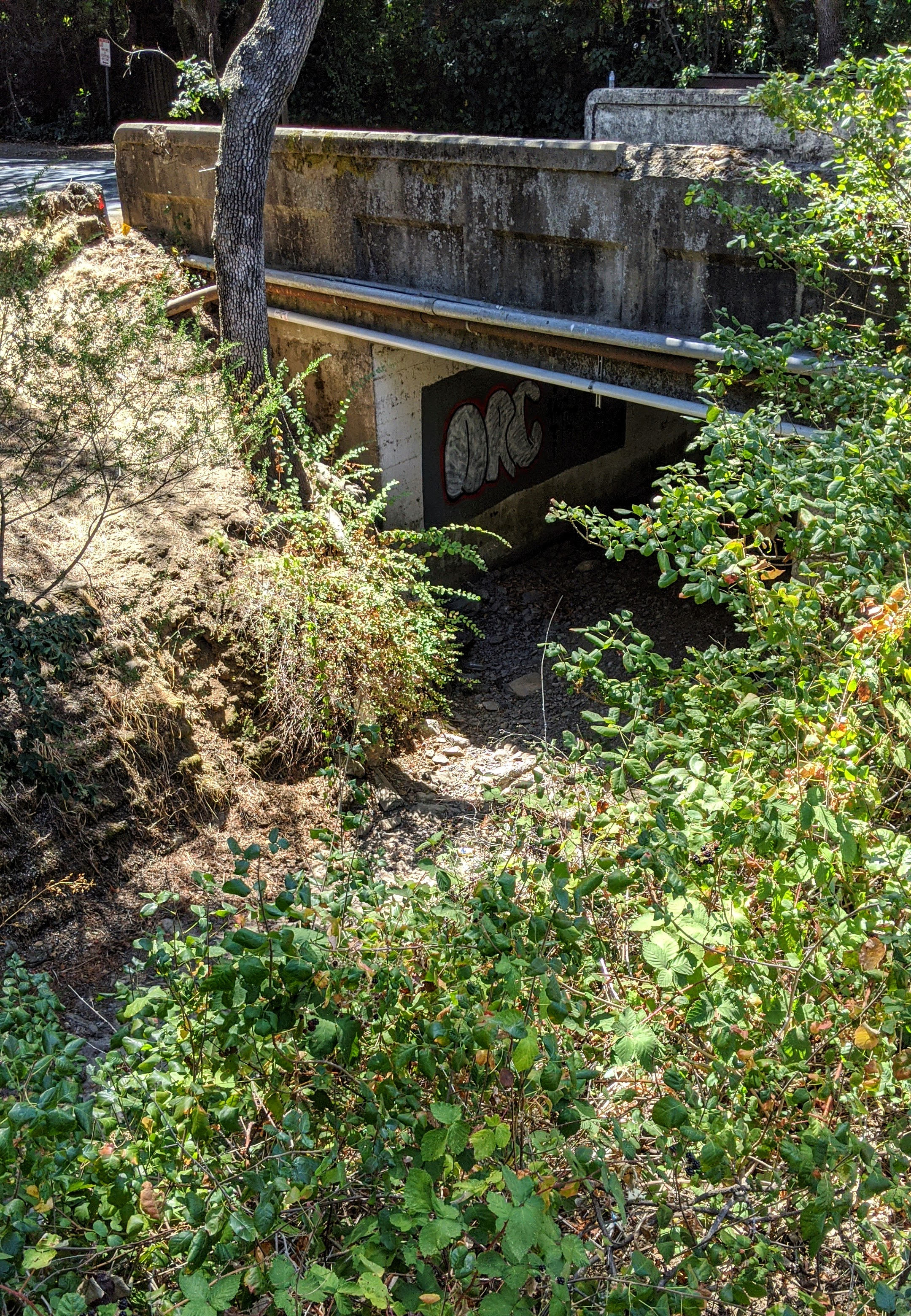 Dry Creek, a tributary of Bear Creek that flows along the west side of Cañada Road and by Buck's of Woodside, exiting under Mountain Home Road close to Woodside Road (California state route 84)